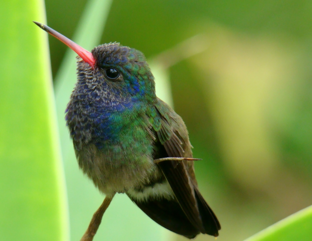 White-chinned Sapphire (Hylocharis cyanus) Sv: Bikolibri De: Bienenelfe